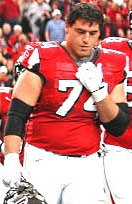 Atlanta Falcons offensive tackle Todd Weiner at the 2008 regular season matchup against the Denver Broncos. Original picture caption: The Fort McPherson U.S. Army Forces Command color guard team presents the flags as the national anthem plays at Sunday's pre-game ceremony for the Atlanta Falcons versus Denver Broncos game held at the Georgia Dome. The team is comprised of, from left, Staff Sgt. Kimberly Nicholas, rifleman; Sgt. 1st Class Calvin Hood, national colors bearer and NCO in charge; Sgt. 1st Class Richard Tulloch, Army flag bearer; Staff Sgt. Kelly Henderson, Installation Management Command-Southeast Region, flag bearer; and Sgt. Timothy Braswell, rifleman.